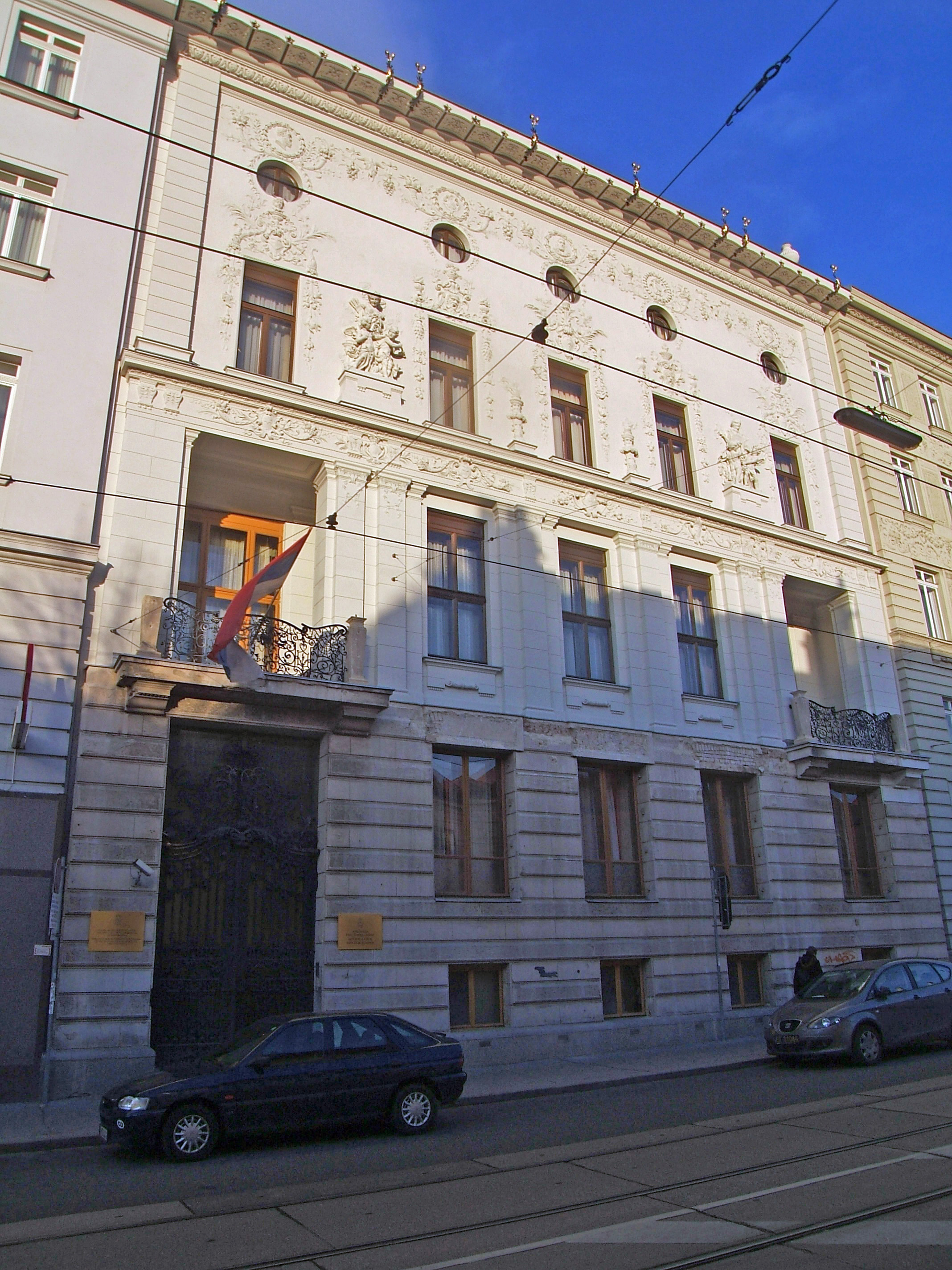 Palais Hoyos in Vienna 3rd district Rennweg 3, embassy of Serbia